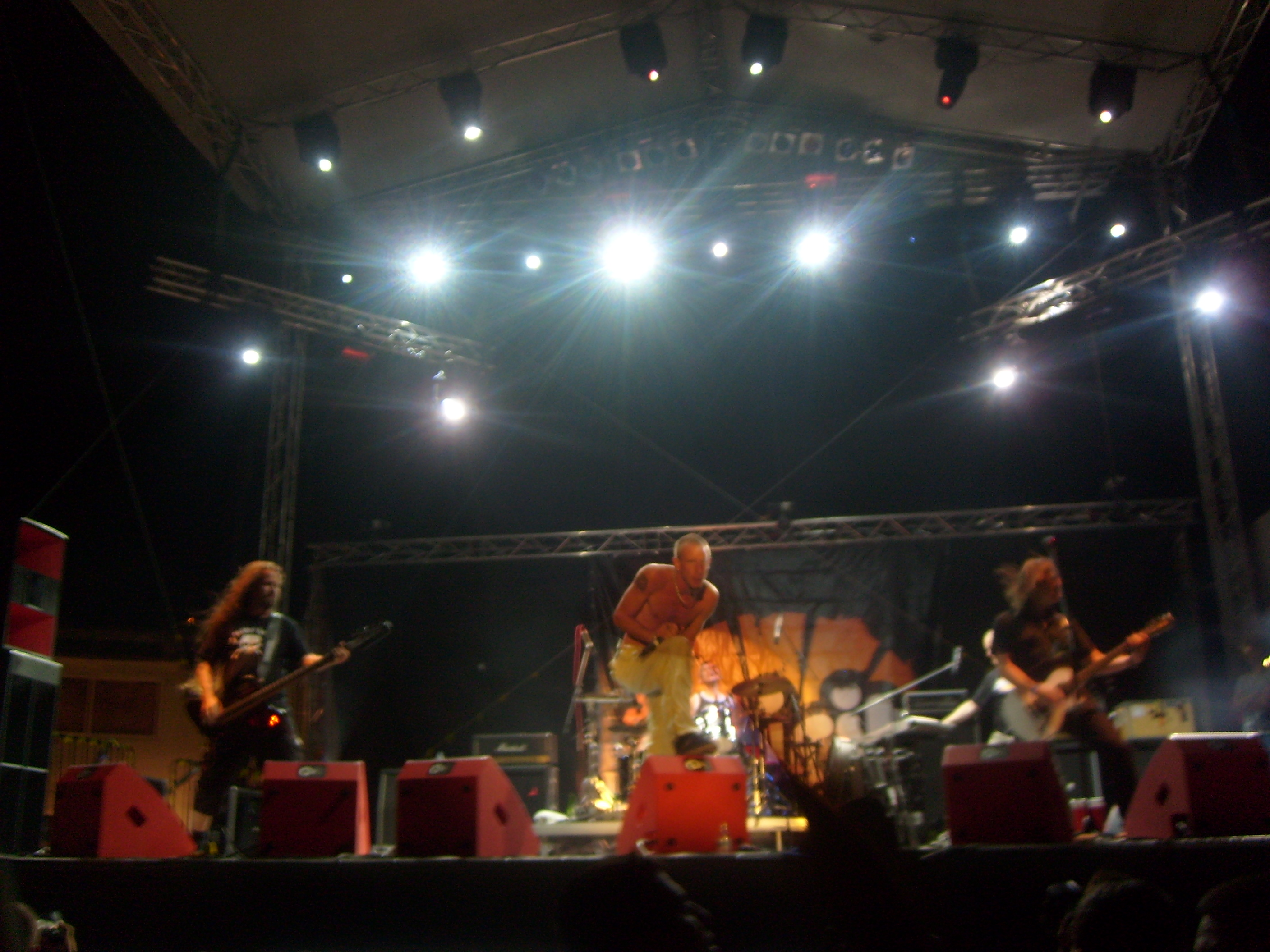 Clawfinger @ Spirit of Burgas 2009